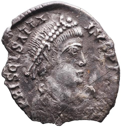 Priscus Attalus Siliqua